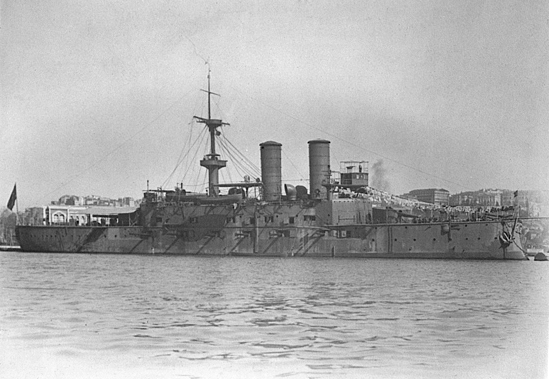 Ottoman ironclad Mesudiye off Constantinople